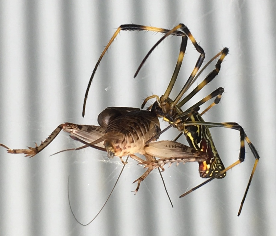 Nephila clavata is eating a female Cricket.